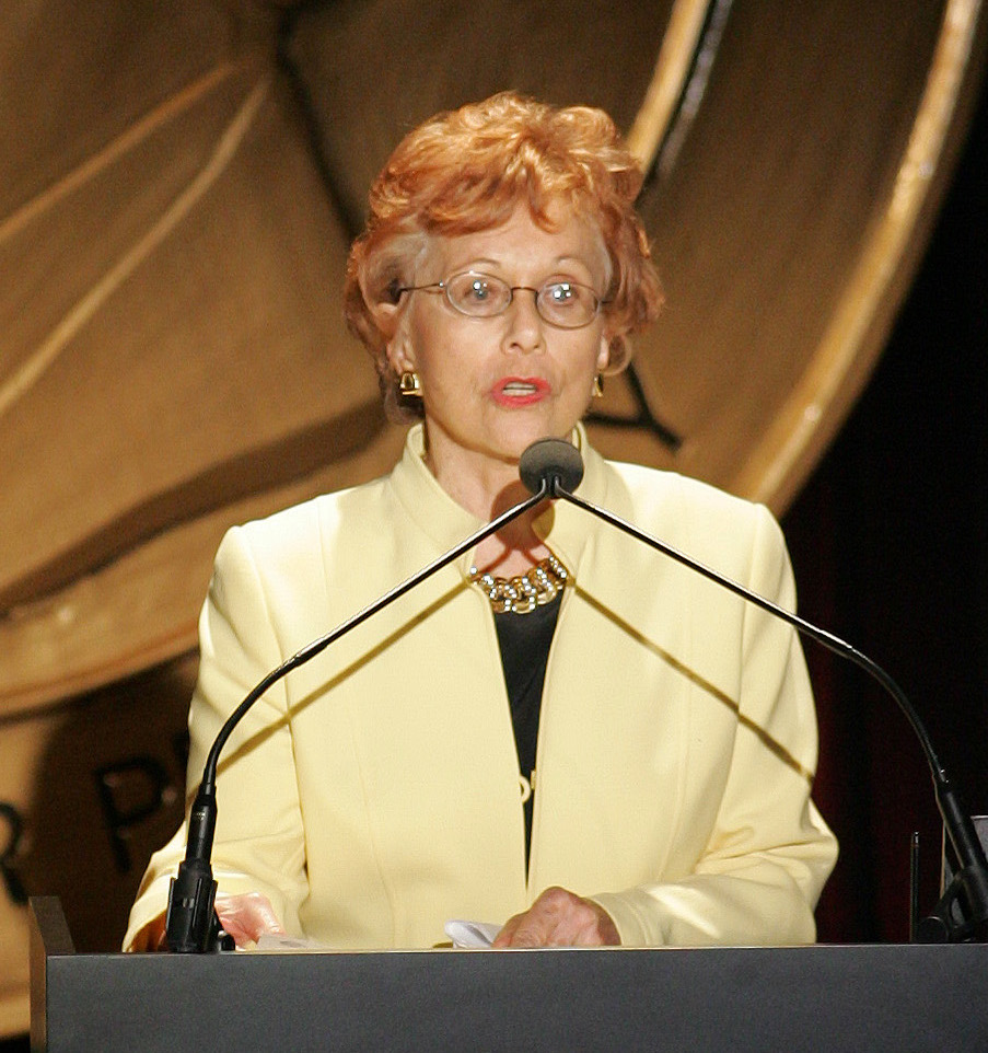 Marlene Sanders at the 64th Annual Peabody Awards Luncheon, at the Waldorf-Astoria Hotel in New York, in May 2005.